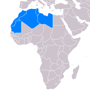 from Image:Maghreb.PNG, which is {PD-self} by User:SpLoT